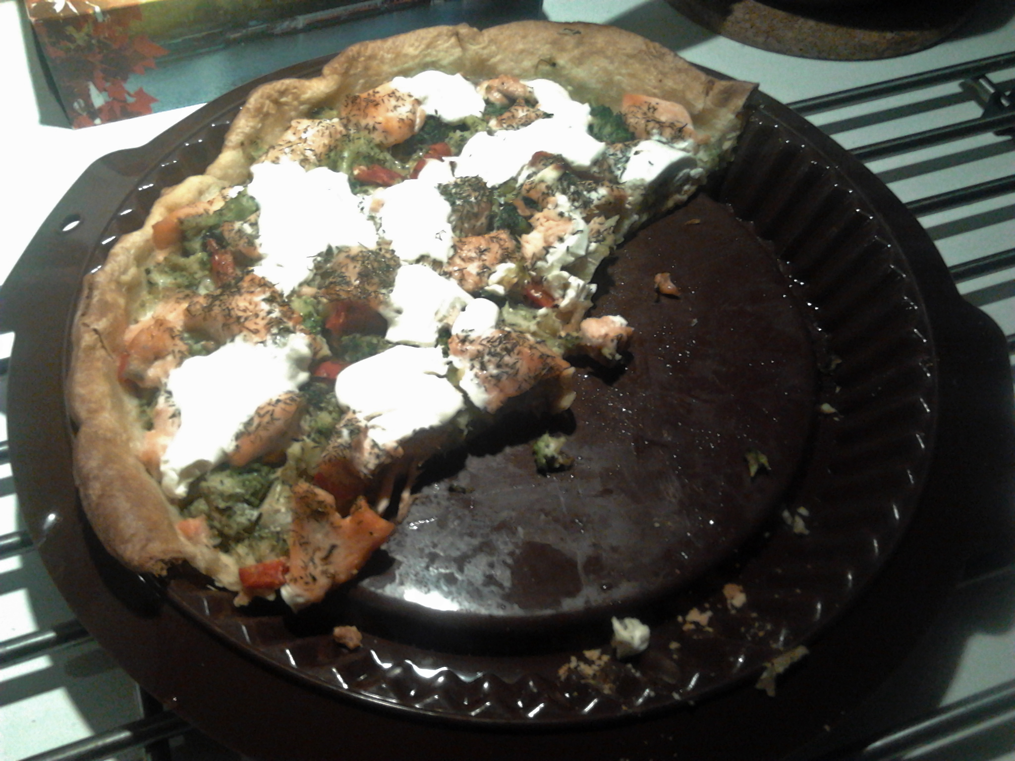 Salmon pie with sour cream and vegetables